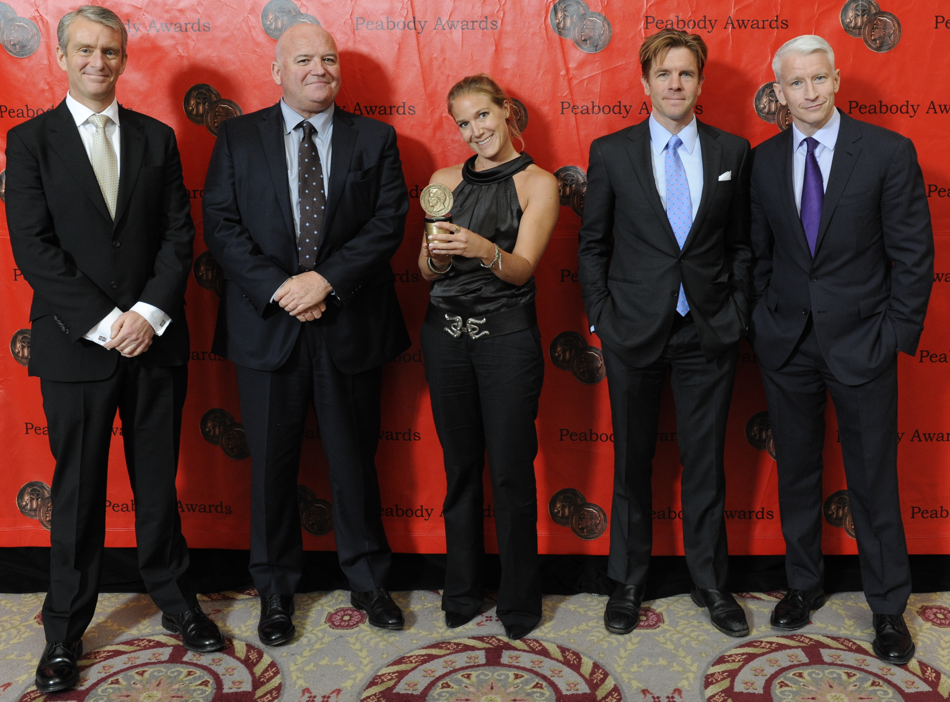 PHOTO CREDIT: ANDERS KRUSBERG / PEABODY AWARDS A Peabody Award for CNN’s Reporting on the Arab Spring. L to R: Nic Robertson, Tony Maddox, Arwa Damon, Ivan Watson, and Anderson Cooper. 71st Annual Peabody Awards Luncheon Waldorf=Astoria Hotel, May 21, 2012